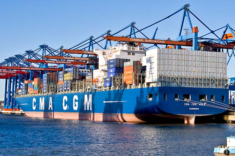 The CMA CGM Vela (ex Conti Jupiter, IMO 9354923), with a length over all of 347,48 metres and a capacity of nominal 10 960 TEU the biggest container ship under the German flag, is moored at the Burchardkai in the Port of Hamburg, Germany. IMO Number: 9354923 MMSI Number: 218694000 Callsign: DFUM2 Length: 347 m Beam: 46 m